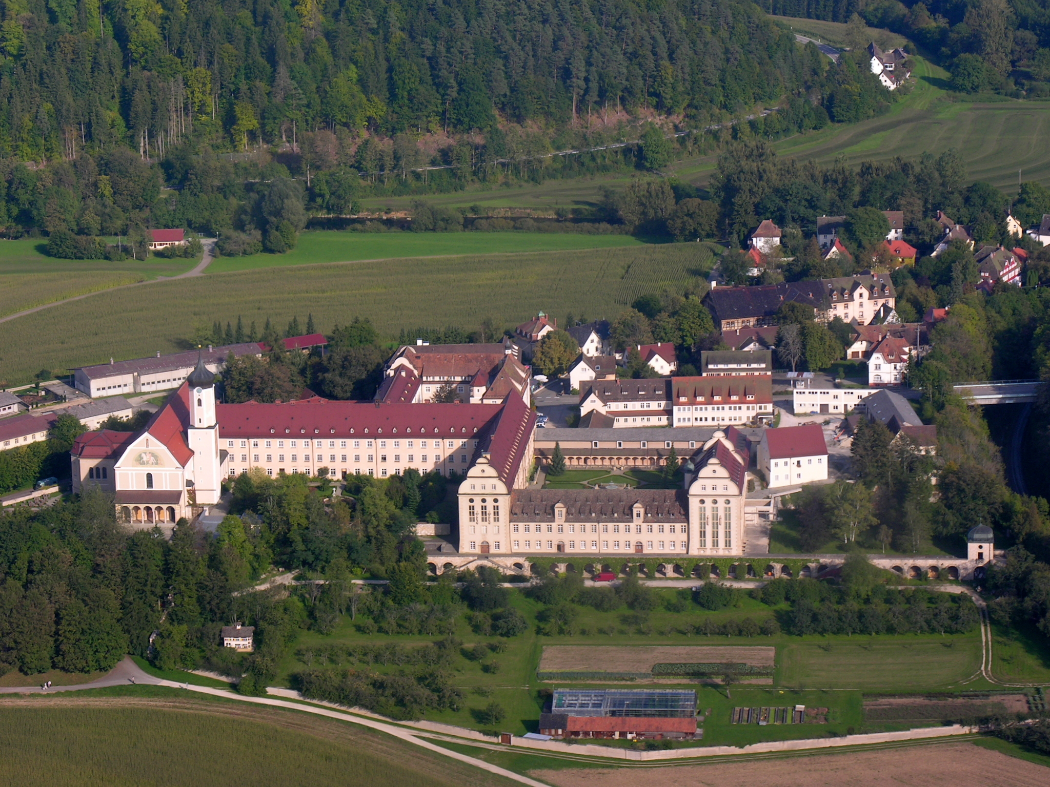 Germany, Baden-Württemberg, Aerial view of Benedictin Beuron Archabbey in the Danube valley